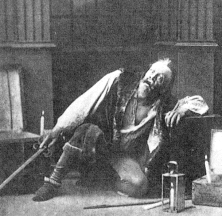 The Russian actor and director Constantin Stanislavski (Константин Сергеевич Станиславский) as the Knight in Pushkin's The Miserly Knight, produced by The Moscow Society for Art and Literature in 1888.